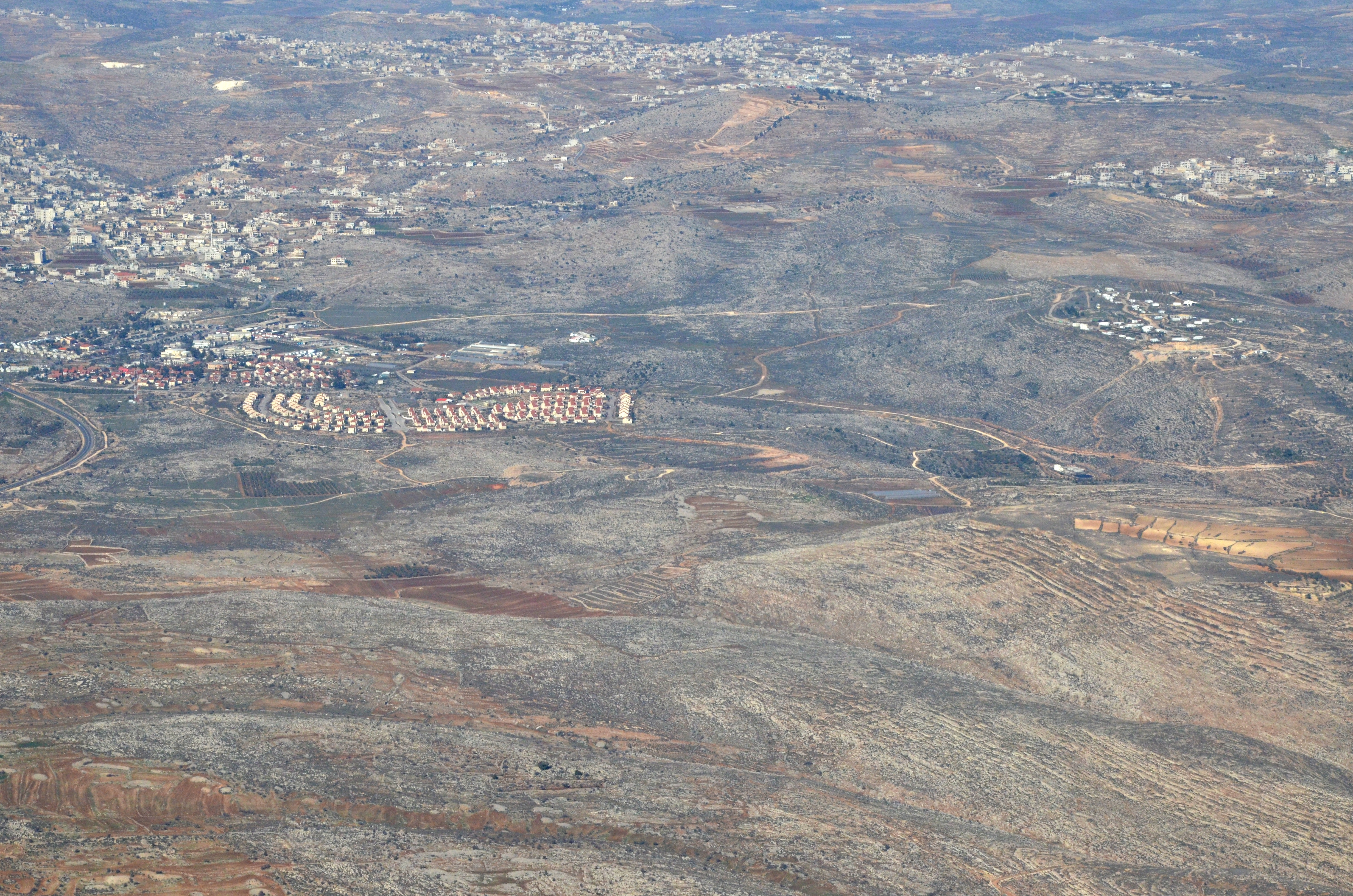 The picture is taken from the south looking northward. On the right the closer group of prefabbed houses on the mountain is Amona. behind Amona is Deir Jarir. Behind, a group of building between trees, is an army base on the highest mountain in the west bank, at least north of Jerusalem. The houses all along the farther part of the picture are Al-Mazra'a ash-Sharqiya. The red roofed houses on the closer left are Ofra. behind Ofra is Silwad